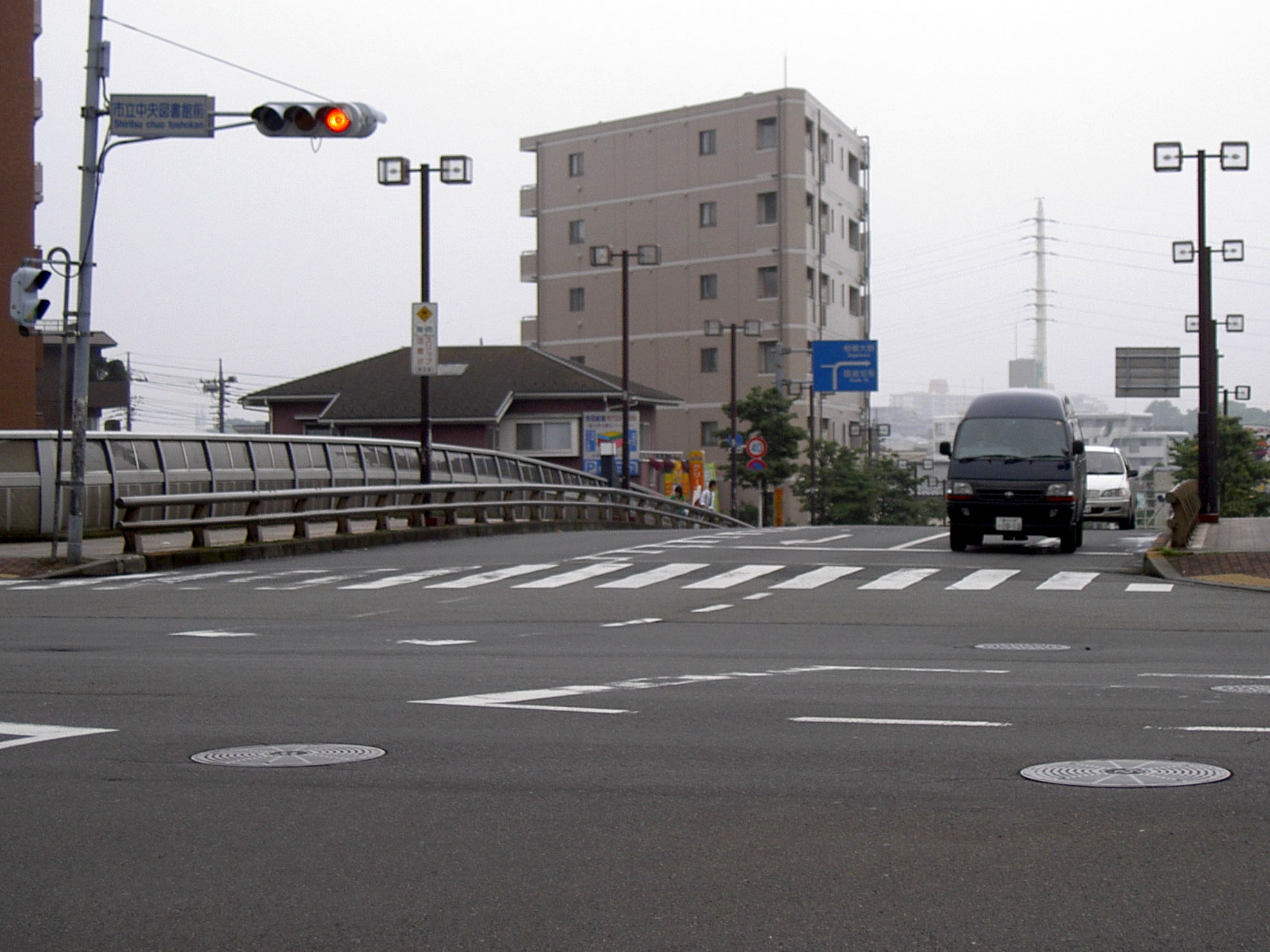 Tokyo Prefectural Road Route 51, in Machida city ja: 東京都道・神奈川県道51号町田厚木線（町田市原町田）